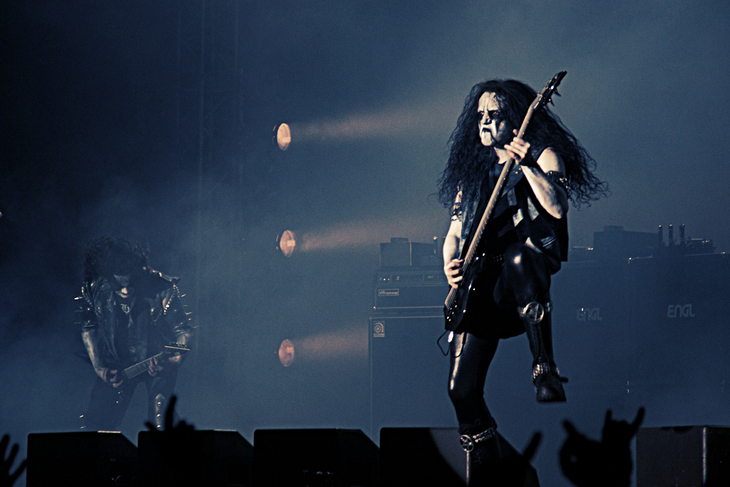 Immortal live at Getaway Rock Festival 2011.